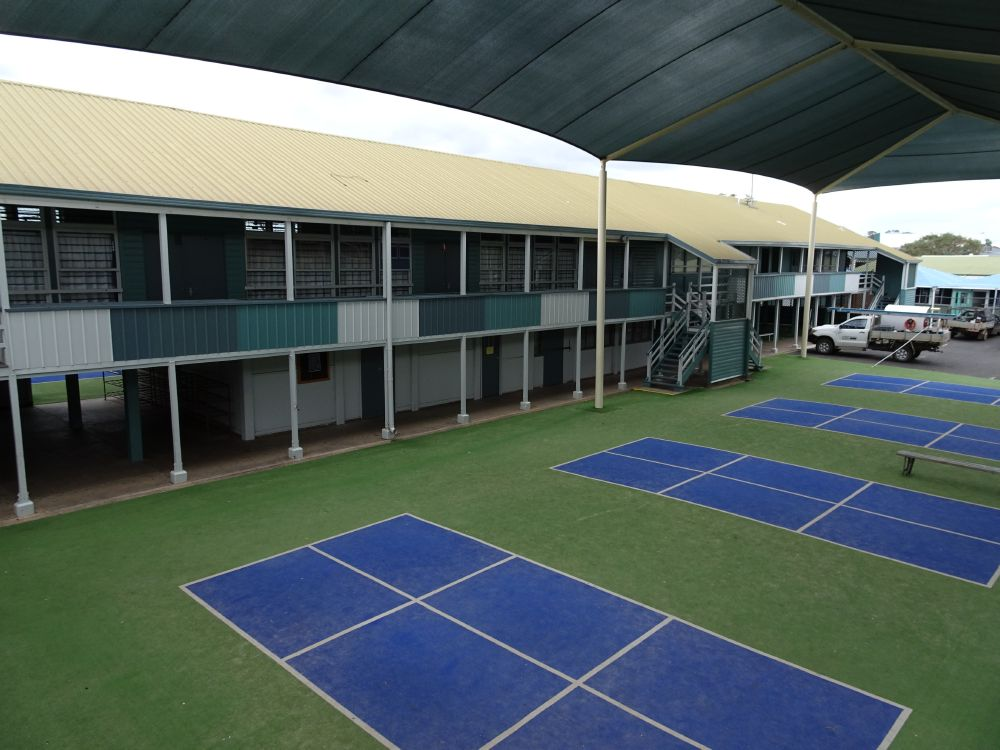 Block B, north side looking west